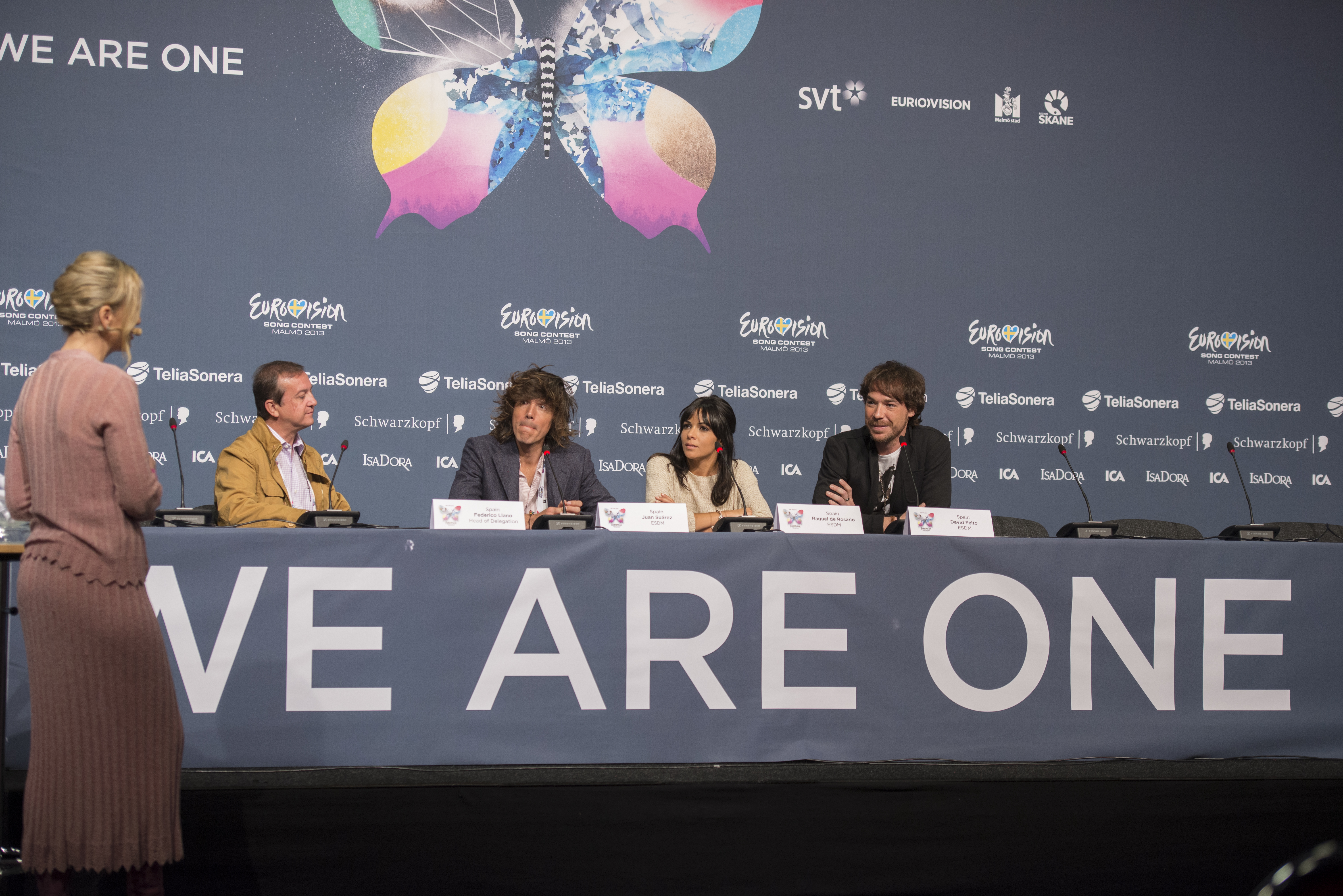 El Sueño de Morfeo at a press conference during the Eurovision Song Contest 2013 Malmö. (Help translate this text)